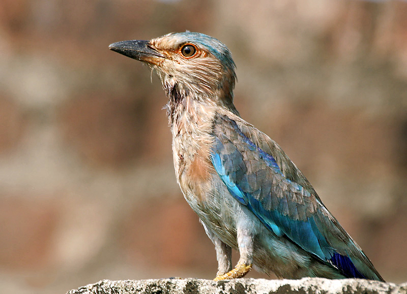 Indian Roller Coracias benghalensis in Kolkata, West Bengal, India.